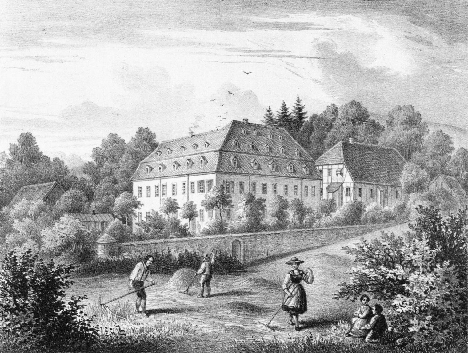 manor Großrückerswalde in the Erzgebirge